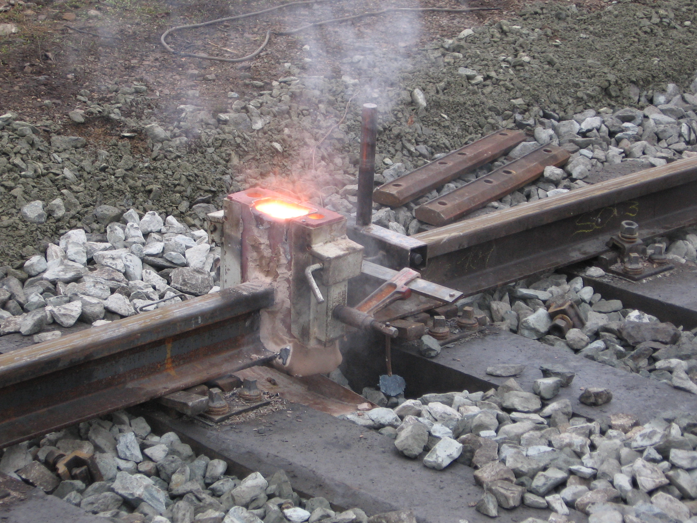 Thermite rail welding in Plzeň